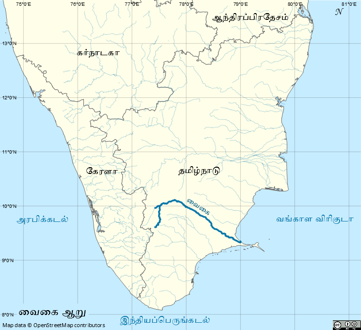 Map showing river Vaigai.